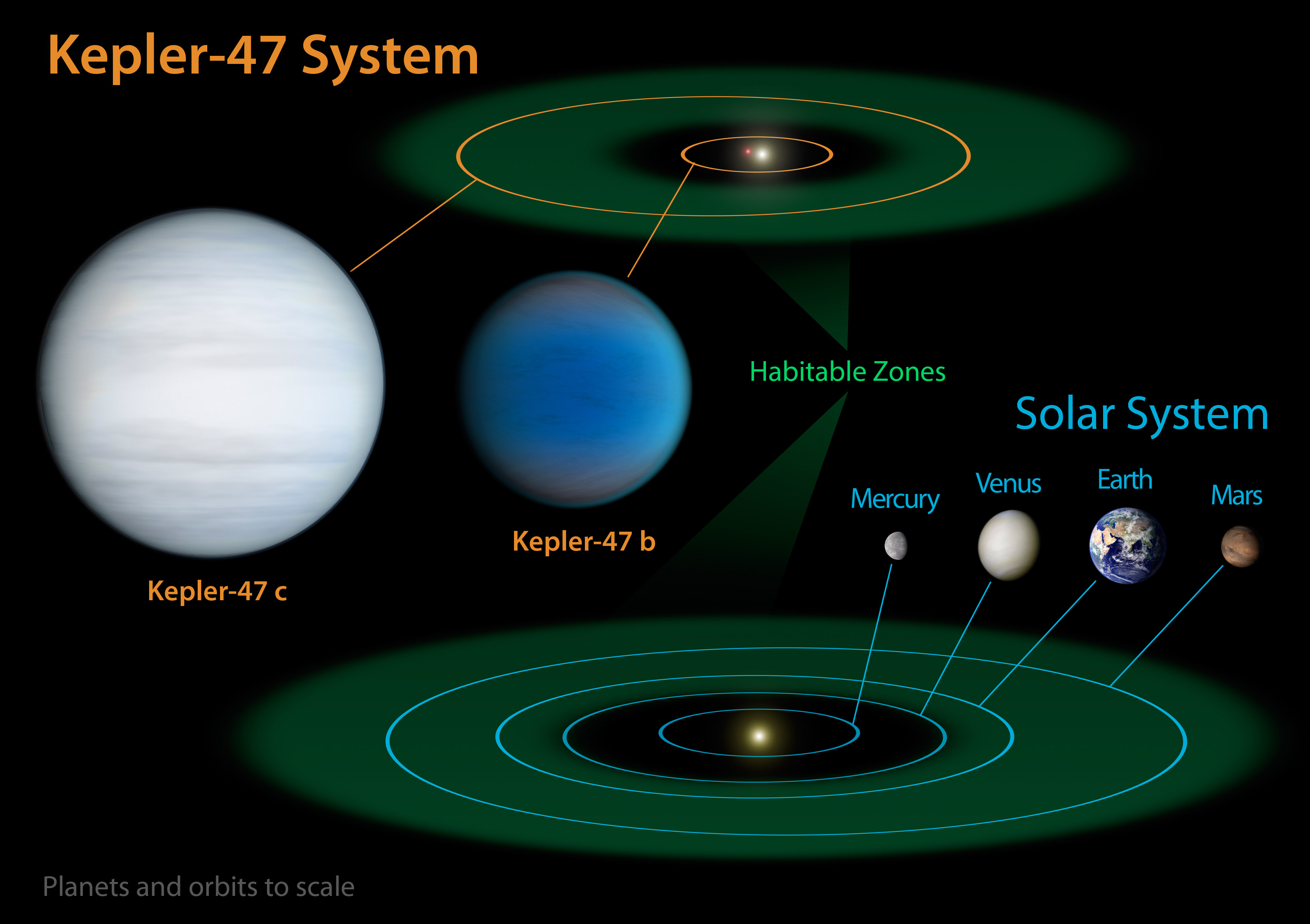 This diagram compares our own solar system to Kepler-47, a double-star system containing two planets, one orbiting in the so-called "habitable zone." This is the sweet spot in a planetary system where liquid water might exist on the surface of a planet. Unlike our own solar system, Kepler-47 is home to two stars. One star is similar to the sun in size, but only 84 percent as bright. The second star is diminutive, measuring only one-third the size of the sun and less than one percent as bright. As the stars are smaller than our sun, the systems habitable zone is closer in. The habitable zone of the system is ring-shaped, centered on the larger star. As the primary star orbits the center of mass of the two stars every 7.5 days, the ring of the habitable zone moves around. This artist's rendering shows the planet comfortably orbiting within the habitable zone, similar to where Earth circles the sun. One year, or orbit, on Kepler-47c is 303 days. While not a world hospitable for life, Kepler-47c is thought to be a gaseous giant, slightly larger than Neptune, where an atmosphere of thick bright water-vapor clouds might exist. For more, visit